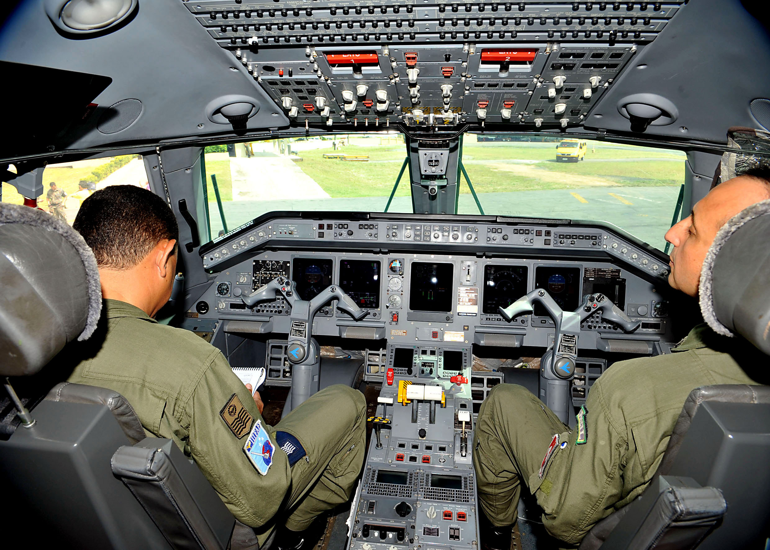 Cabin of the R99 airplane of the Brazilian Air Force (BAF), equipped with radars capable to track potential debris of the missing AF 447.